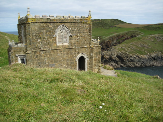 Doyden Castle Doyden Castle was built as a folly in the 1820s, part of Port Quin's natural harbour can be seen below.